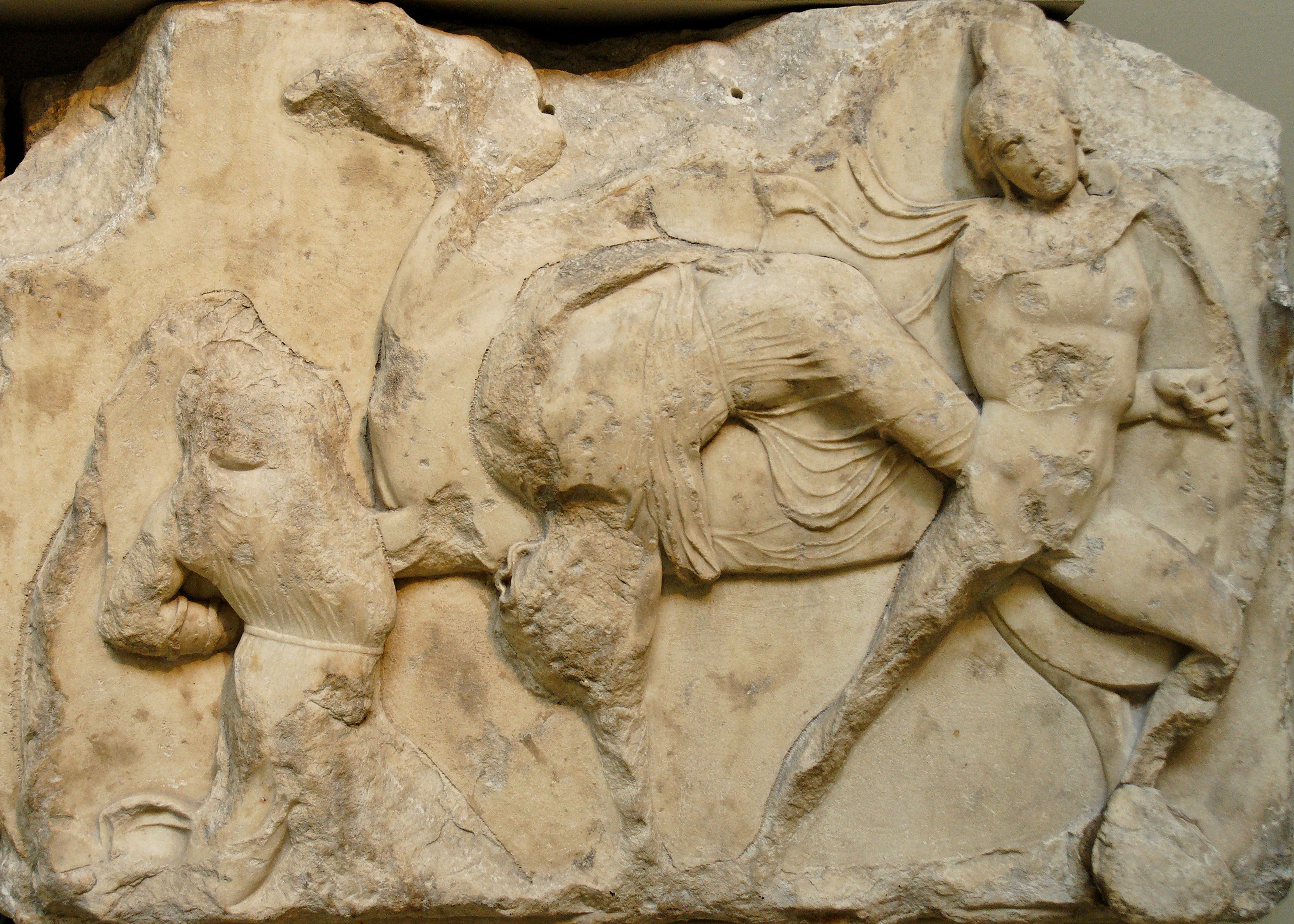 Footsoldier unseating a horseman. Fragment of the larger podium frieze from the Nereid Monument at Xanthos in Lycia, ca. 390–380 BC.